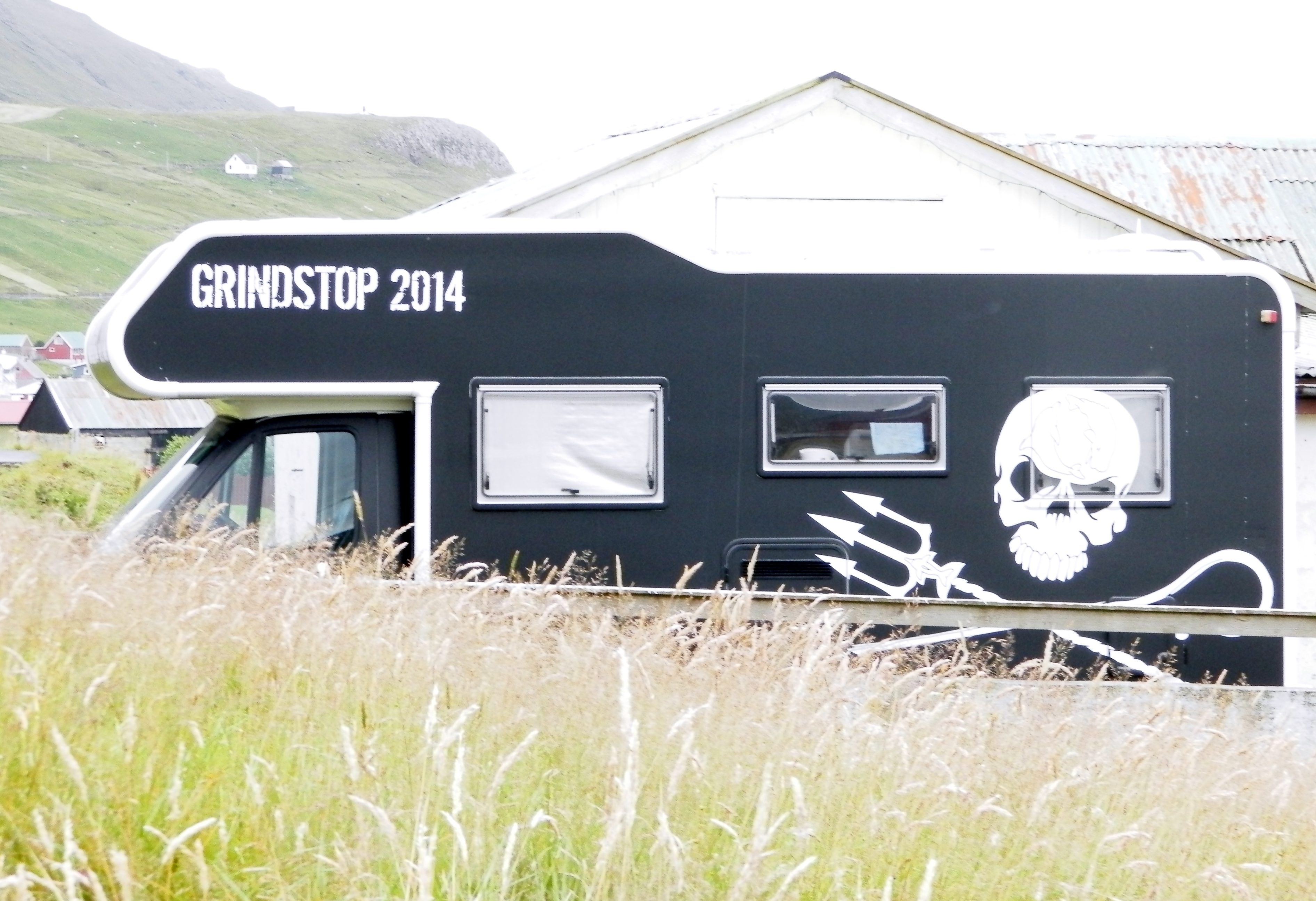 One of Sea Shepherd Conservation Society campers in Trongisvágur, Suðuroy, Faroe Islands in August 2014. Their campaign is called GrindStop 2014.